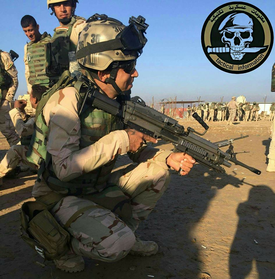 machin Gun